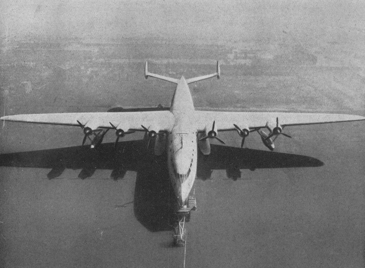 SNCASE SE-200 photo from L'Aerophile September 1945